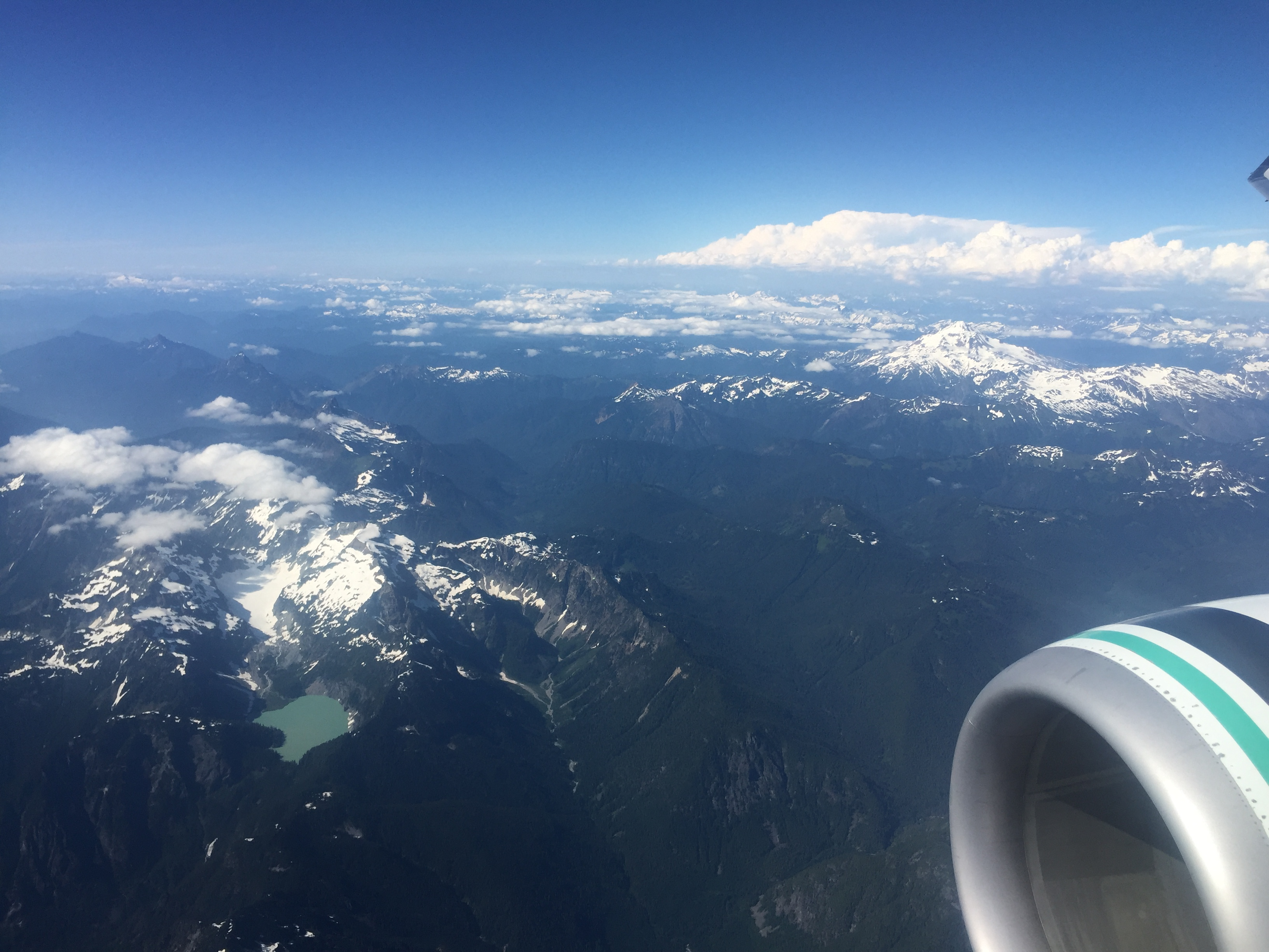 Blanca Lake with view of Glacier Peak in Snohomish County, Washington, United States of America